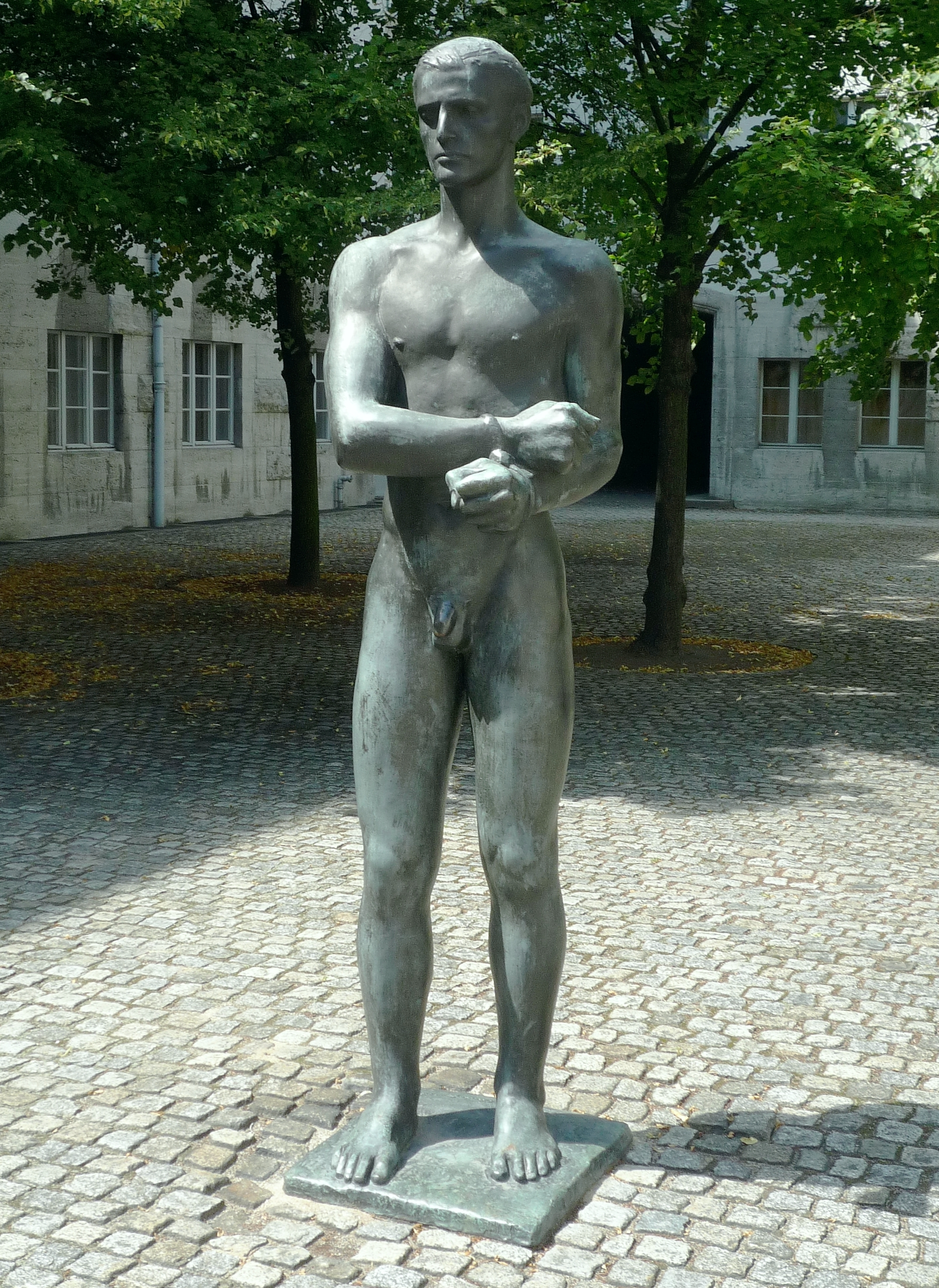 Statue at court of the "Bendlerblock" (German Resistance Memorial Center) in Berlin. Sculptor: Richard Scheibe.